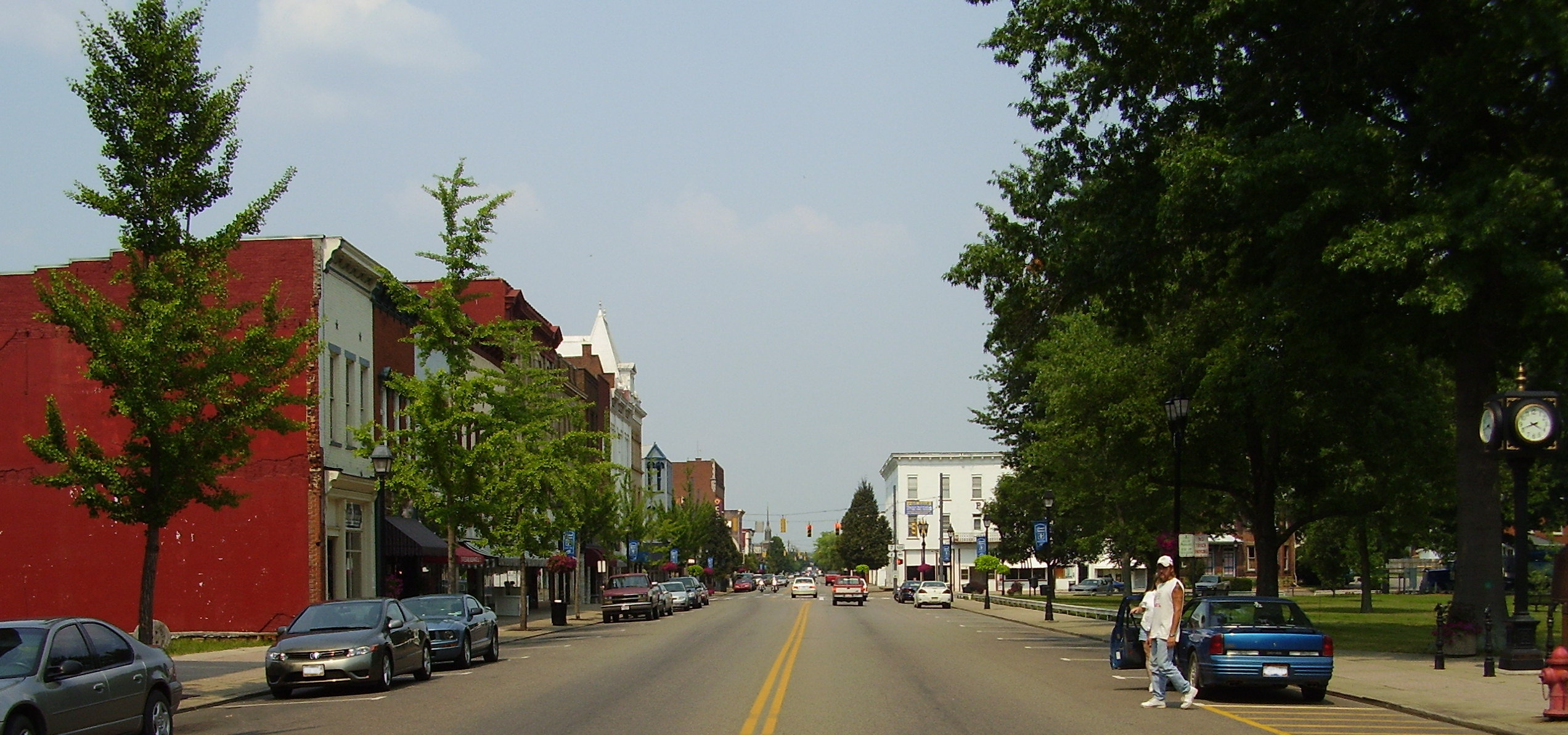 Self-made photo of the CBD of Gallipolis, Ohio taken on 8 July 2006 from the middle of Ohio Route 7, looking north near the city park.